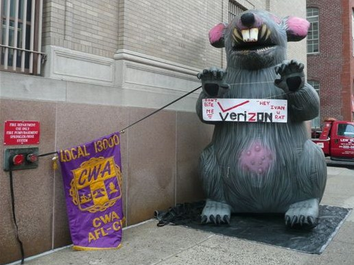 AFL-CIO unions (including Communications Workers of America 13000, International Brotherhood of Electrical Workers 1944, and United Steelworkers 10) protest outside the Verizon headquarters at 9th and Race streets in downtown Philadelphia.